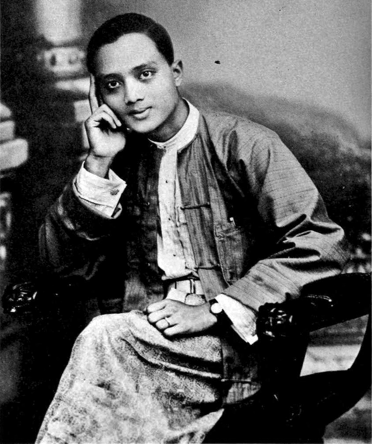 U Thant in 1927, age 18, at RU, where he was reading Byron, among other things